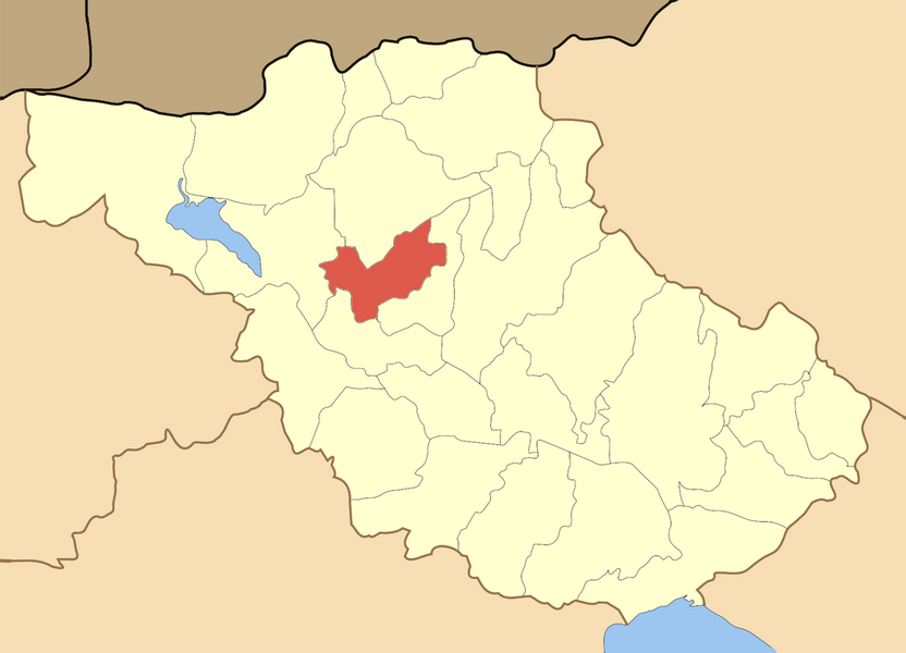 Locator map of Skotousa municipality in Serres perfecture in Greece.